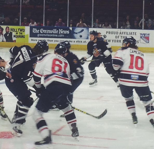 Greenville Swamp Rabbits vs. Florida Everblades